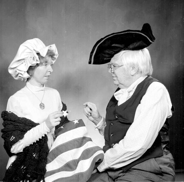 Local call number: PT04214 Title: Joan and Allen Morris in Revolutionary Costume for One of Their Christmas Cards Date: ca. 1975 Physical descrip: 1 photoprint: b&w; 2 x 2 in. Series Title: Political Collection Repository: State Library and Archives of Florida, 500 S. Bronough St., Tallahassee, FL 32399-0250 USA. Contact: 850.245.6700. Persistent URL